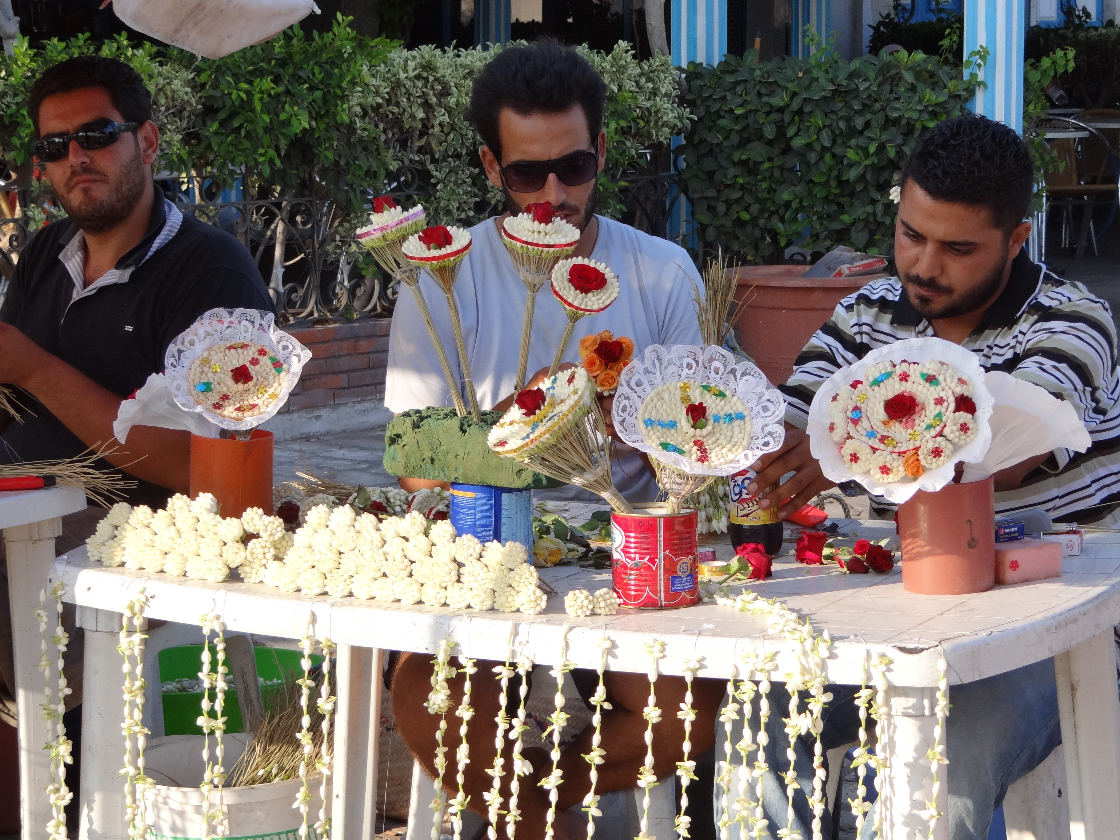 Machmoum à mahdia Touns